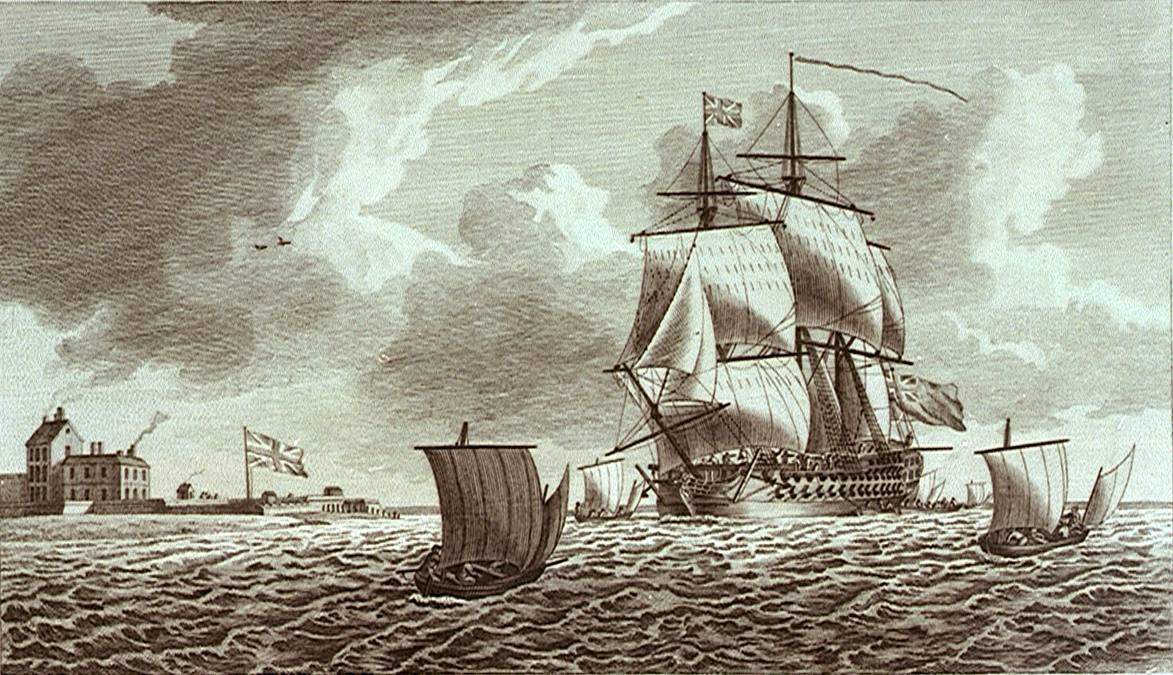 No. 11 of Twelve Views of His Majesty's Ships, &c. in Different Situations. The Ajax, a Man of War, sailing into Portsmouth Harbour, with a View of South Sea Castle. Printed for & sold by Carington Bowles, at his Map & Print Warehouse, No.69 in St Pauls Church Yard. This printing is the right way round so the Ajax is passing the castle into the harbour.